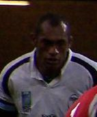 Rugby World Cup 2007 - Canada v Fiji